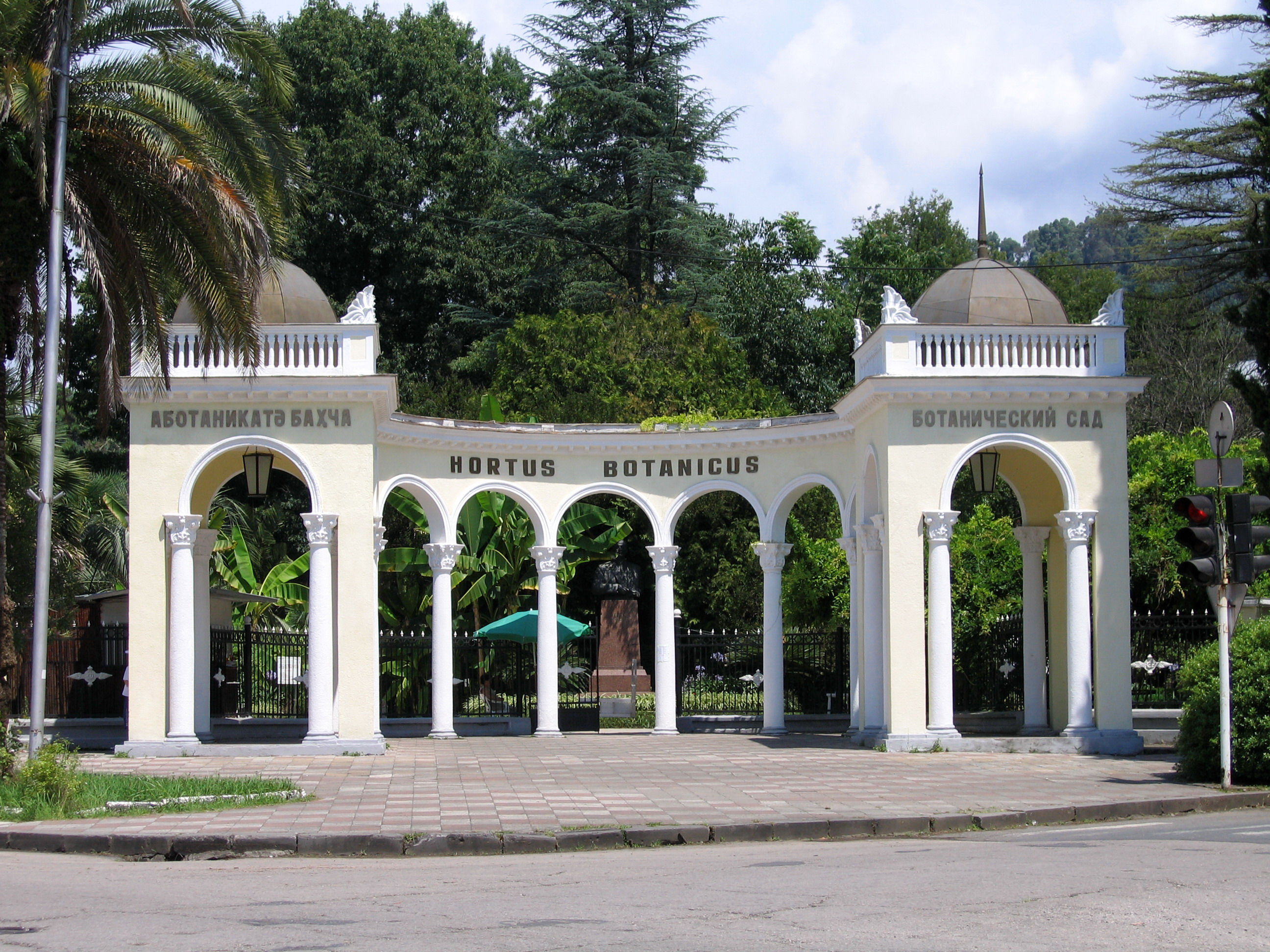 Botanical garden. Main entrance. Sukhumi. Abkhazia